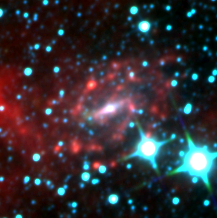 Artificially colored infrared image of Dwingeloo 1 galaxy based on the images from WISE catalog. Red corresponds to the wavelength of 12 μm, green – to 4.5 μm, blue – to 3.6 μm.